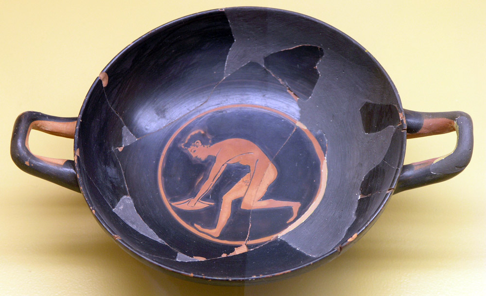 Long jumper with dumbbells. Red-figure kylix, ca. 510 BC. Ancient Agora Museum in Athens.